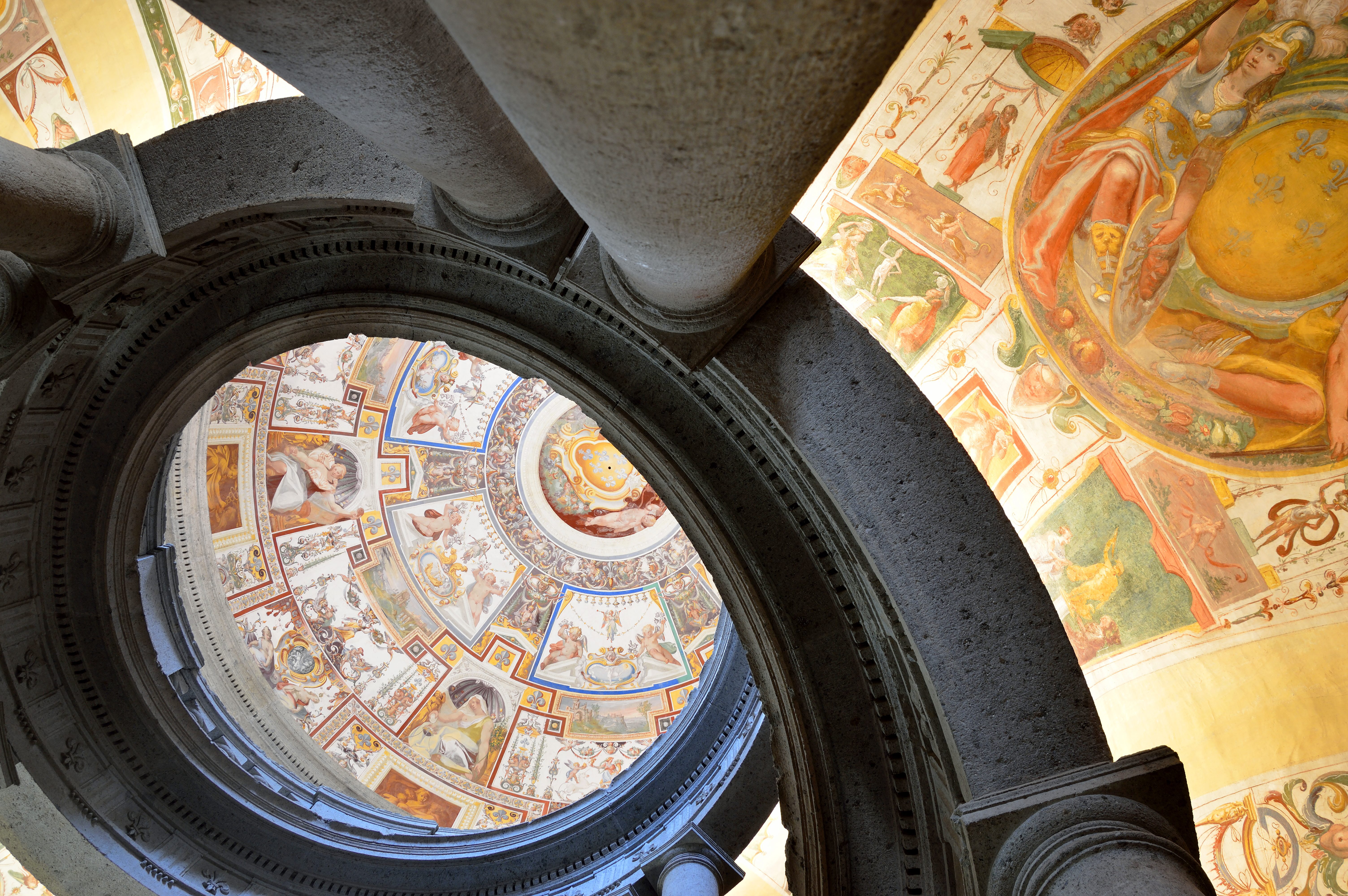 Royal Stairs in Palazzo Farnese (Caprarola)